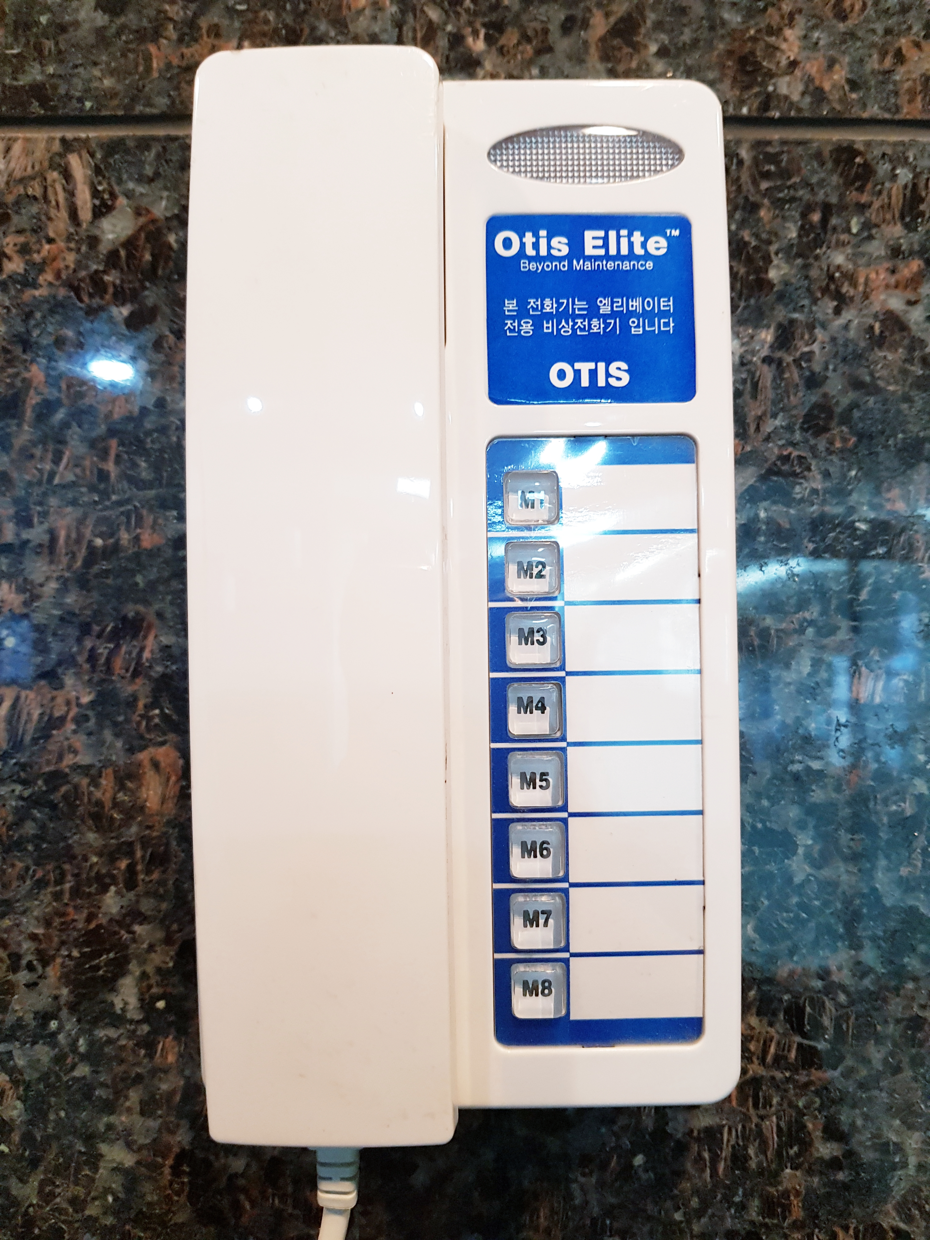 elevator emergency phone (building administrator side)